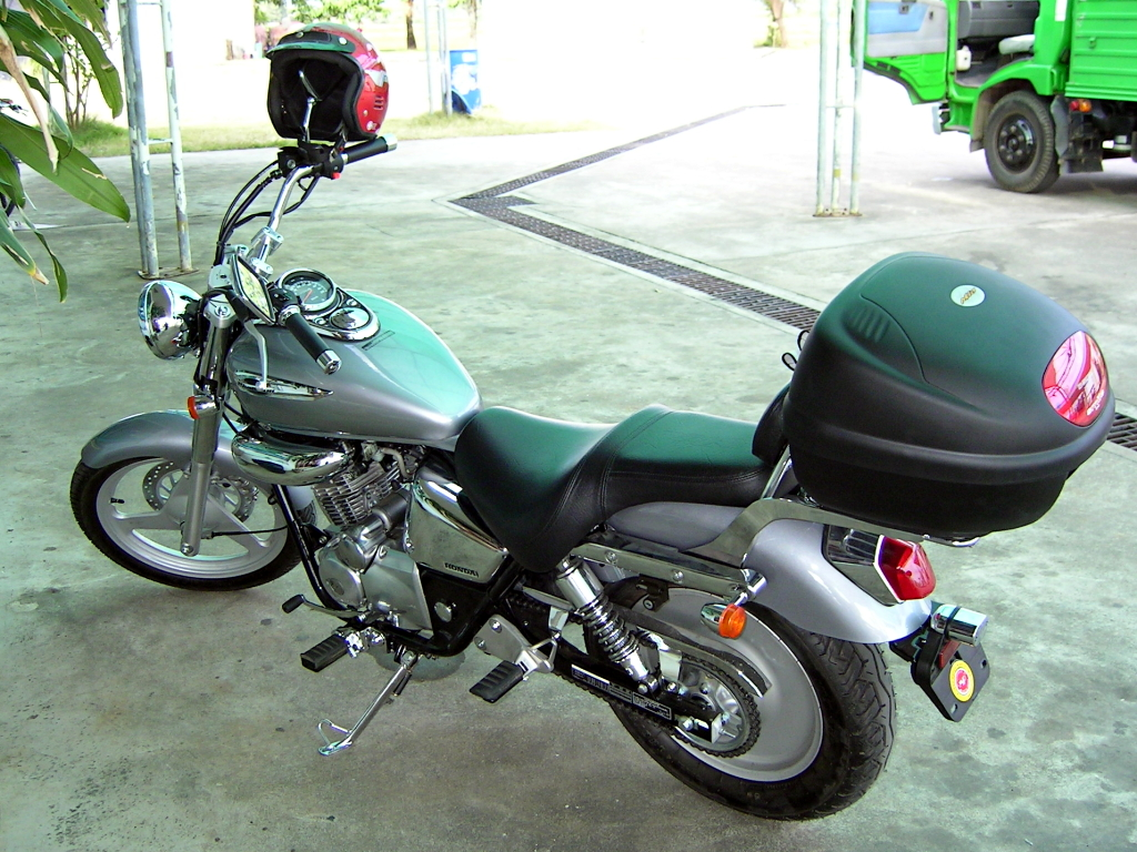 Honda Phantom - a 200cc chopper motorcycle made in Thailand for South-East Asian market.